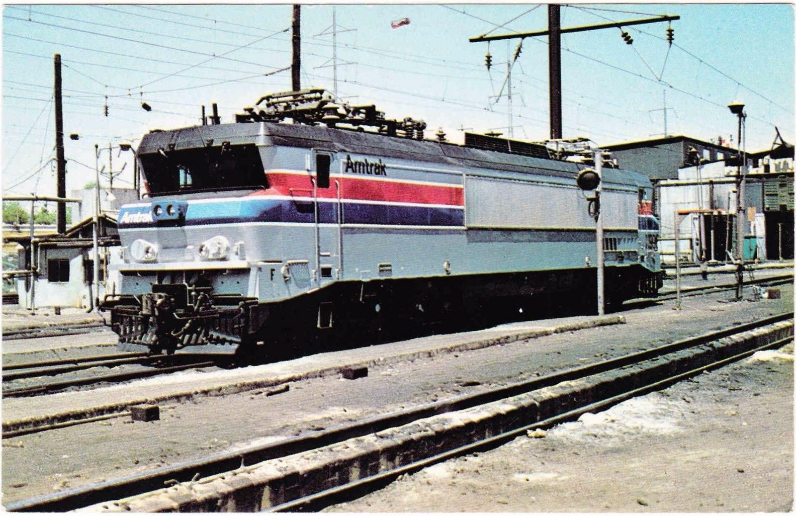 Postcard of the X996 test locomotive at Wilmington in May 1977